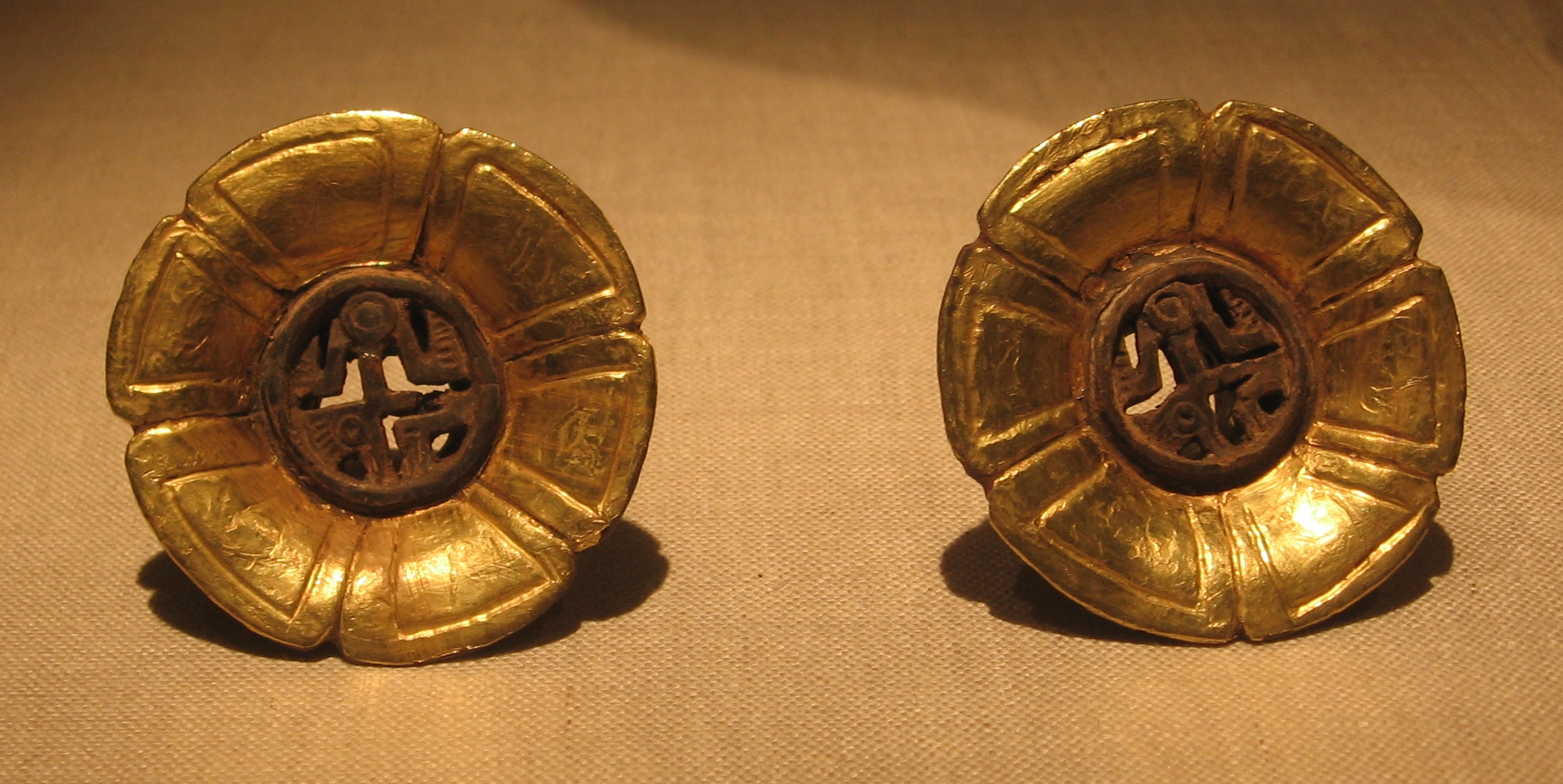 A pair of Aztec ear flares, 15th or early 16th century. Ceramic with gold leaf.